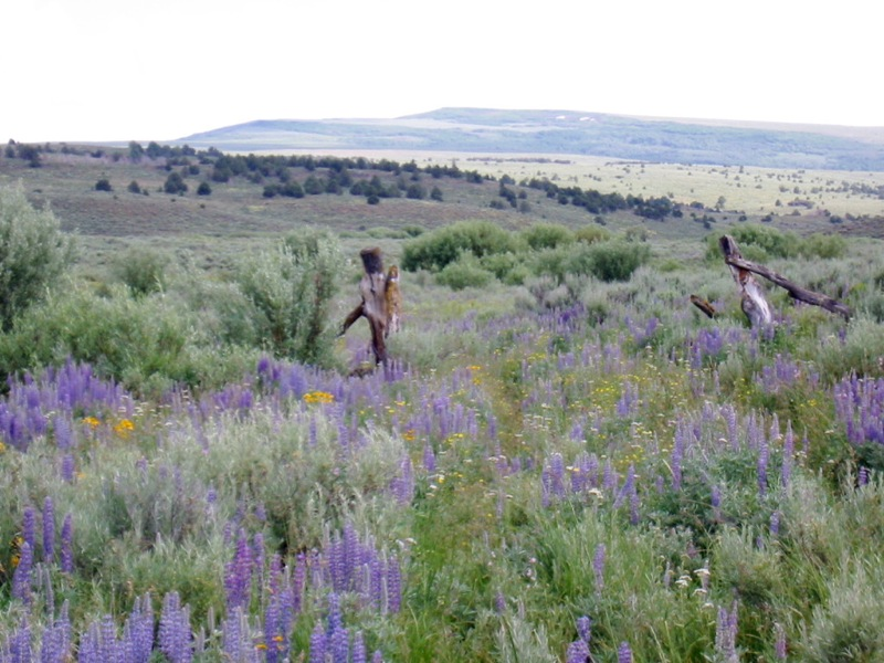 Steens Mountain Wildflowers